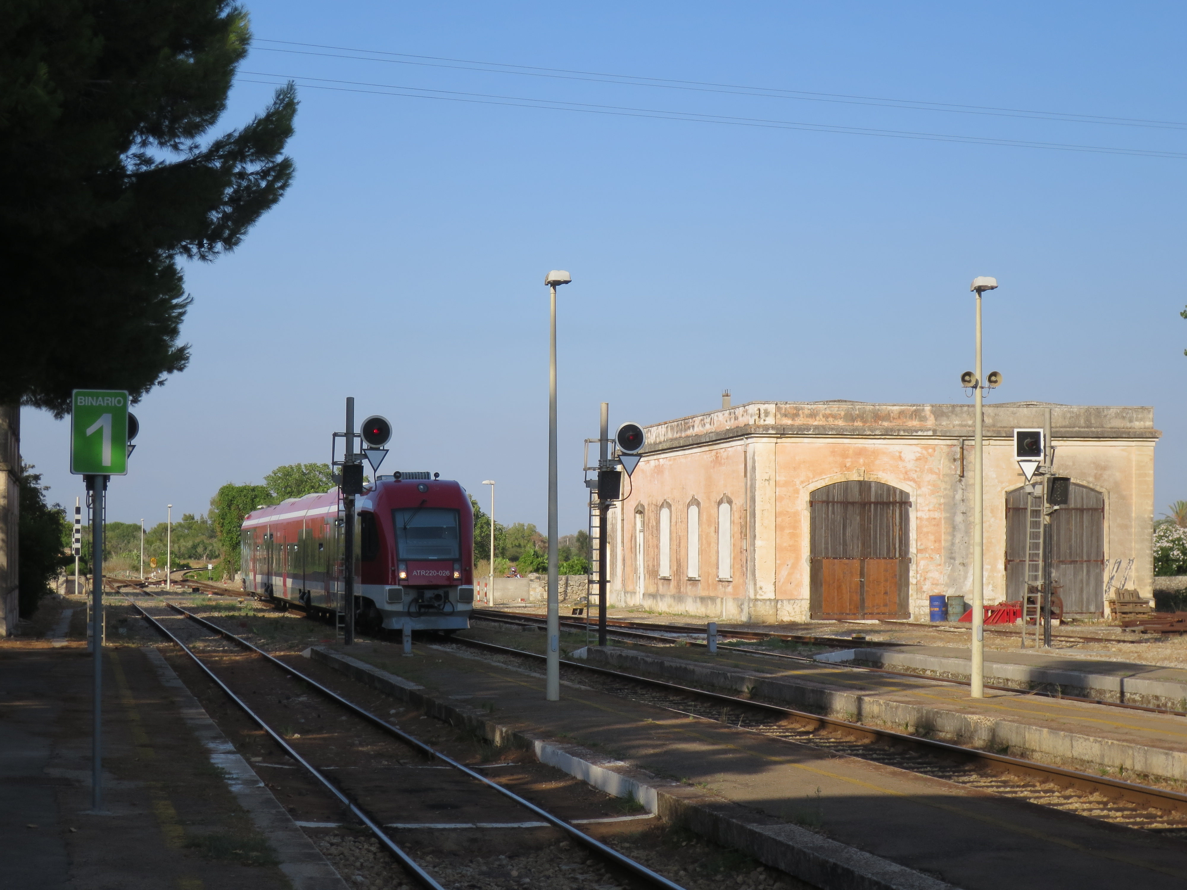 Rly Station Nardò Centrale